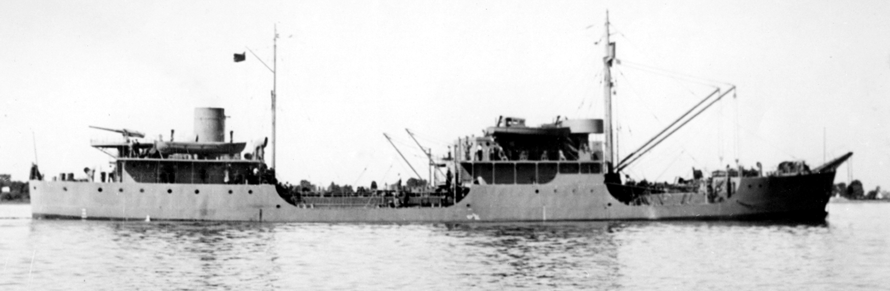 HMCS Preserver F94 commissioned on 11 Jul 1942, at Sorel, Quebec, she arrived at Halifax on 4 Aug, having escorted a Quebec-Sydney convoy en route. She was assigned to Newfoundland Force as a Fairmile base supply ship.